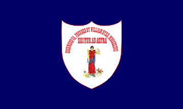 The former city flag of Richmond, Virginia, created by William Byrd, and used from 1914 to 1993.